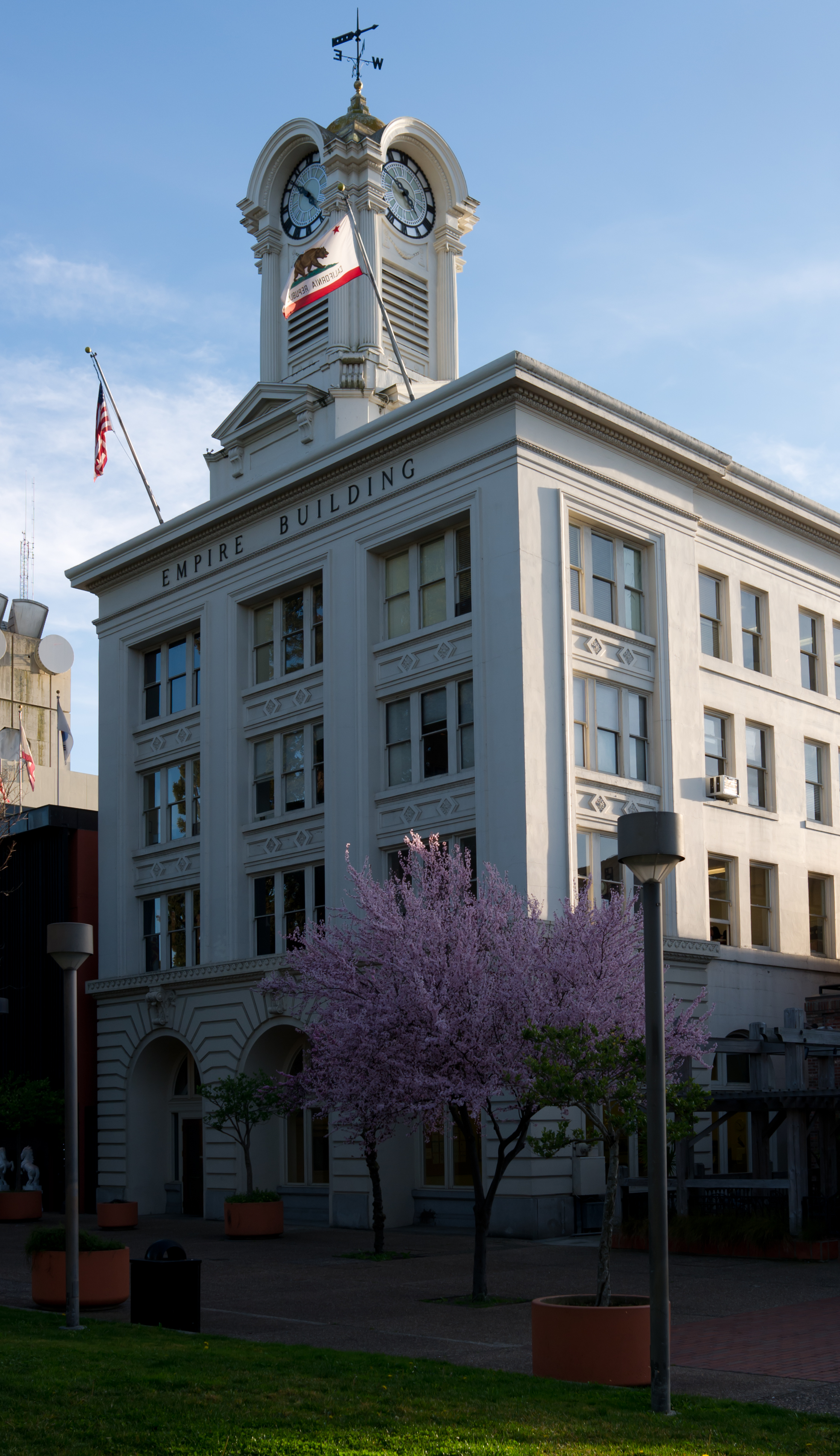 The Empire Building in Downtown Santa Rosa, California. Built after the 1906 earthquake, it was completed in 1910.